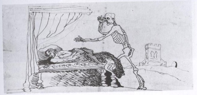 Branwell Brontë's caricature of himself lying in bed and being summoned by death.